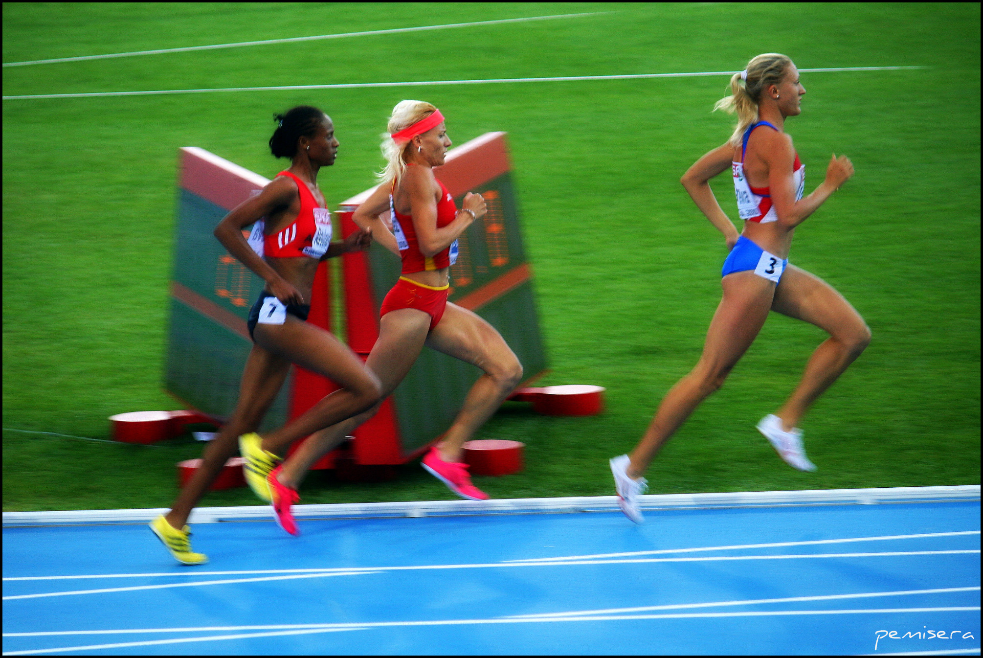 2010 European Athletics Championships – Women's 3000 metres steeplechase. Layes Abdullayeva, Marta Domínguez, Yuliya Zaripova